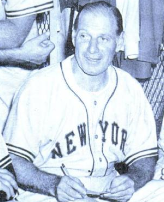 New York Giants manager Leo Durocher in a 1948 issue of Baseball Digest.